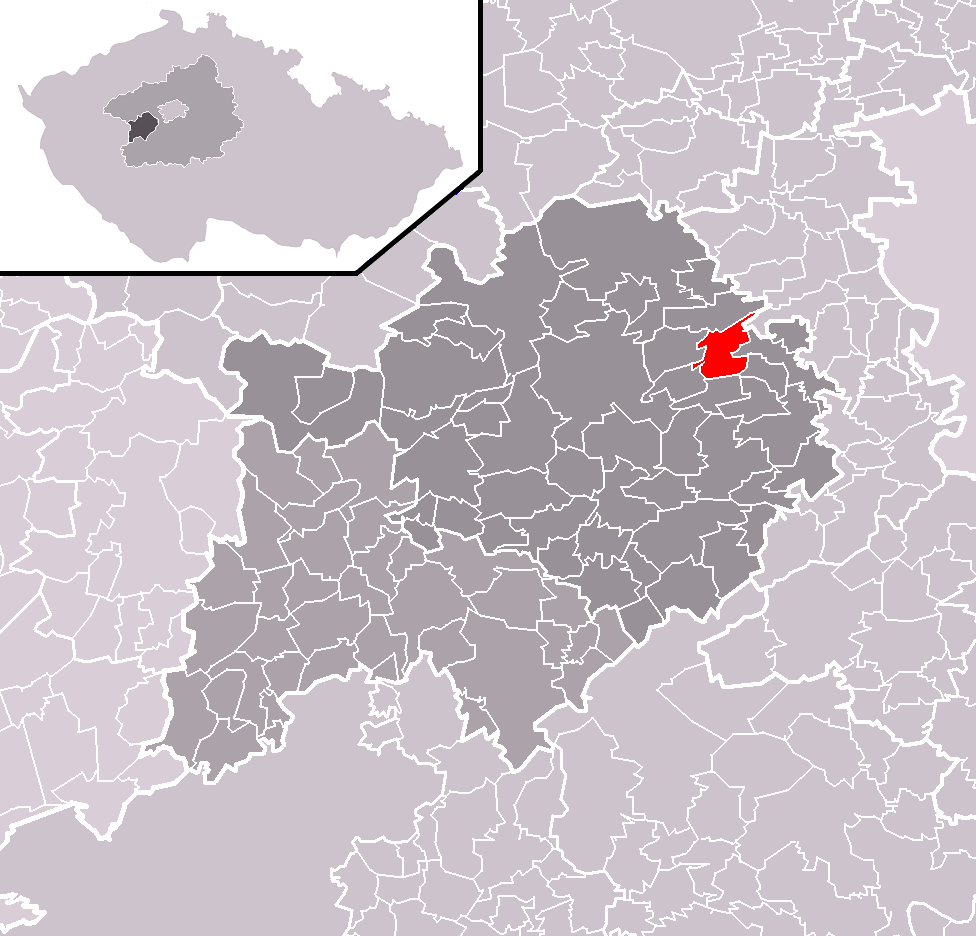 Location of Loděnice municipality within Beroun District and administrative area of Beroun as a Municipality with Extended Competence.